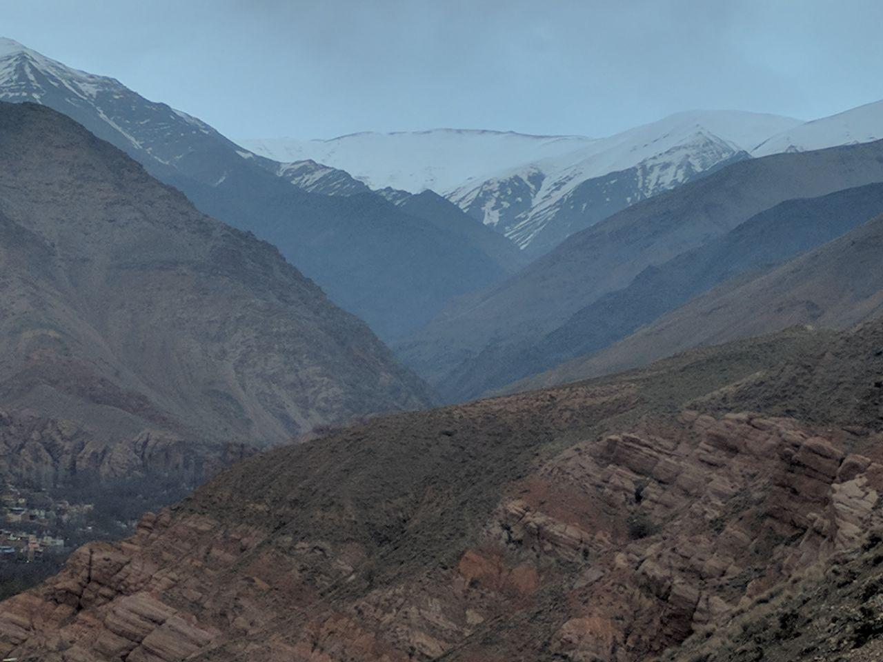 Binalud Height- view from Buzhan-Nishapur County